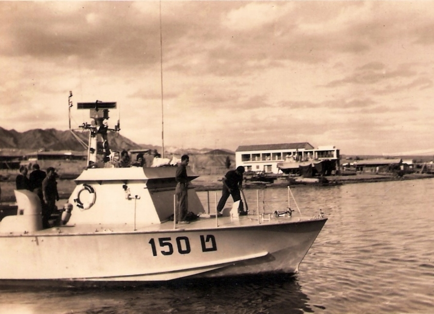 MTB in Eilat